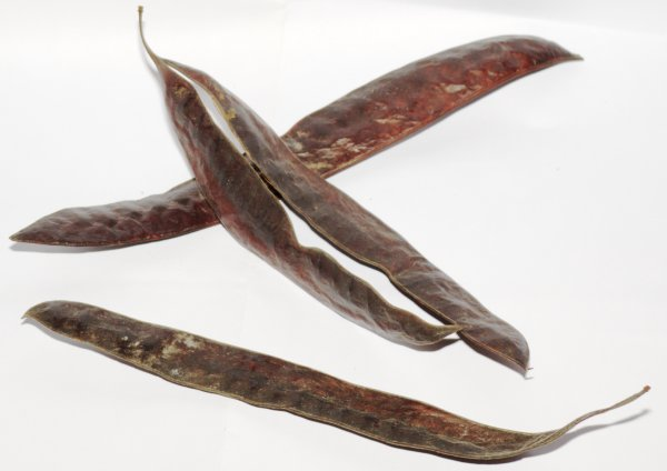 Gleditsia Triacanthos seed pods